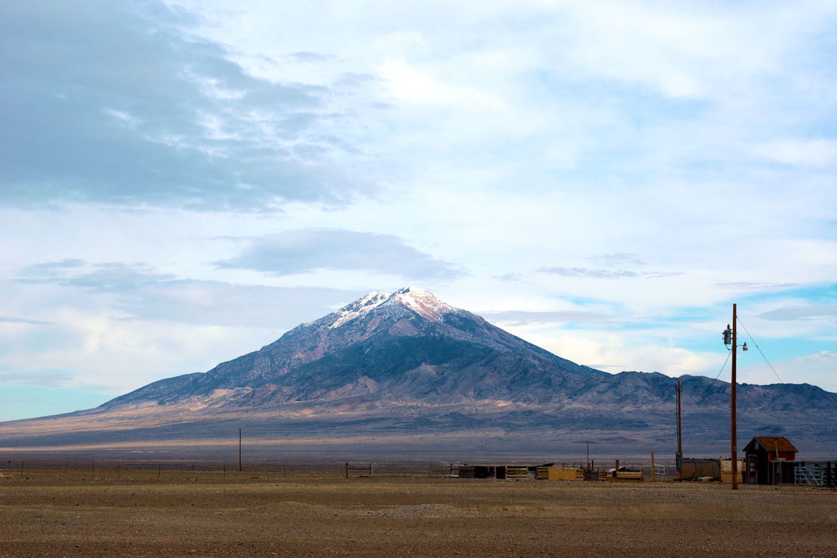 Pilot Peak in Elko County, Nevada; the massif, a landmark on the horizon, is in the Pilot Range, of Elko and Box Elder Counties.